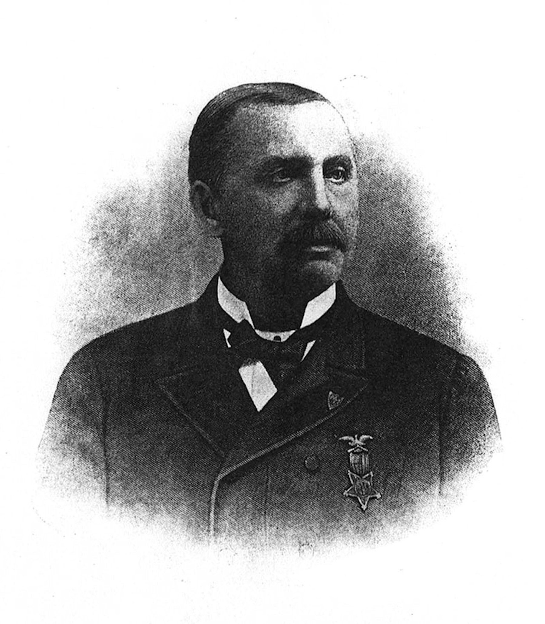 Medal of Honor winner Frederick W Fout c1896